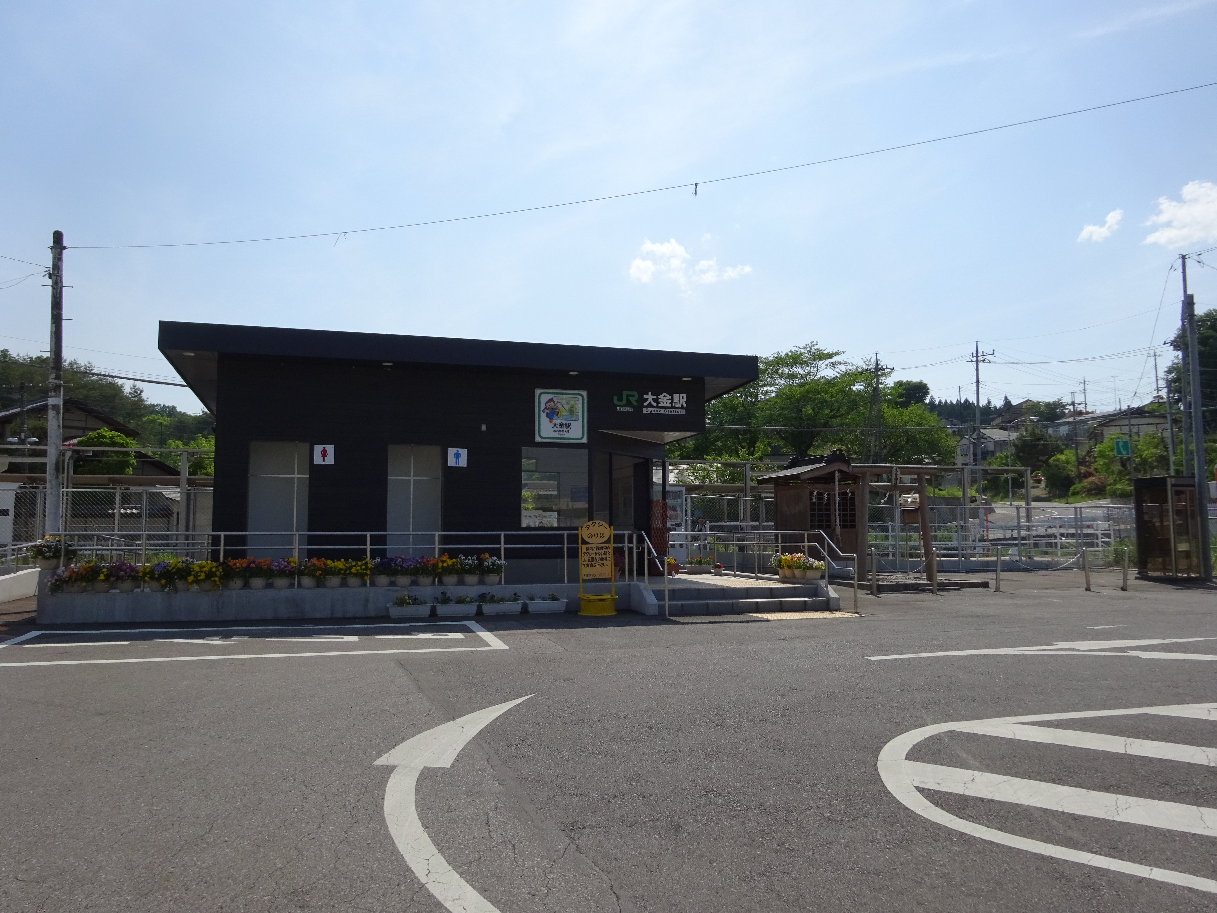 Ōgane Station building and Ōgane Shrine